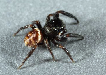 Male Chalcoscirtus diminutus jumping spider collected in Irvine, Orange County, California.